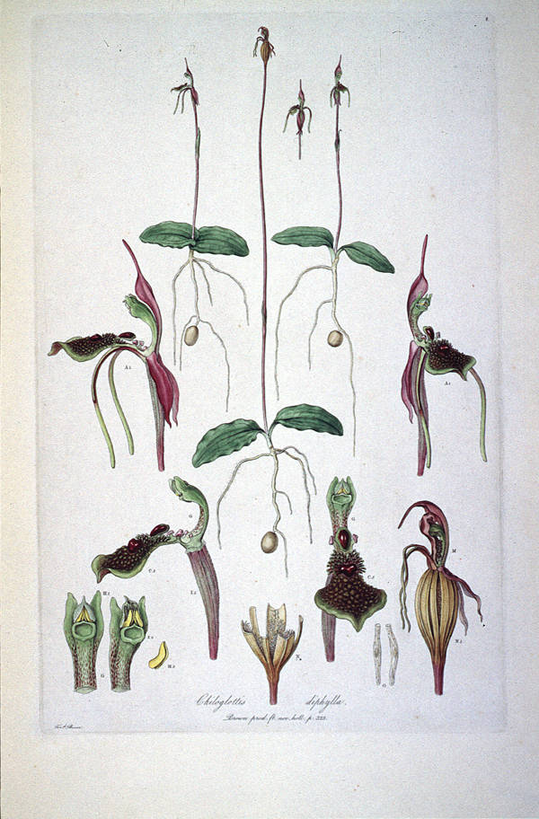 This is a scan of Plate 8 from Ferdinand Bauer's Illustrationes Florae Novae Hollandiae. The plant featured is Chiloglottis diphylla.